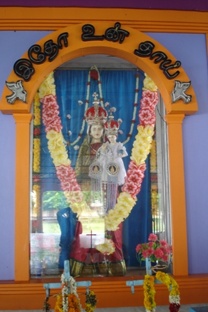 THe great Lady (Periya Nayagi) by Fr.Beschi